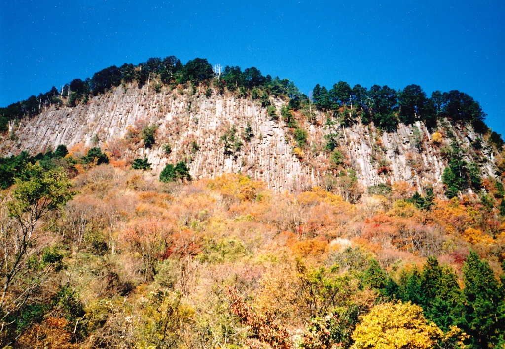 Byobuiwa, Soni, Nara, Japan.